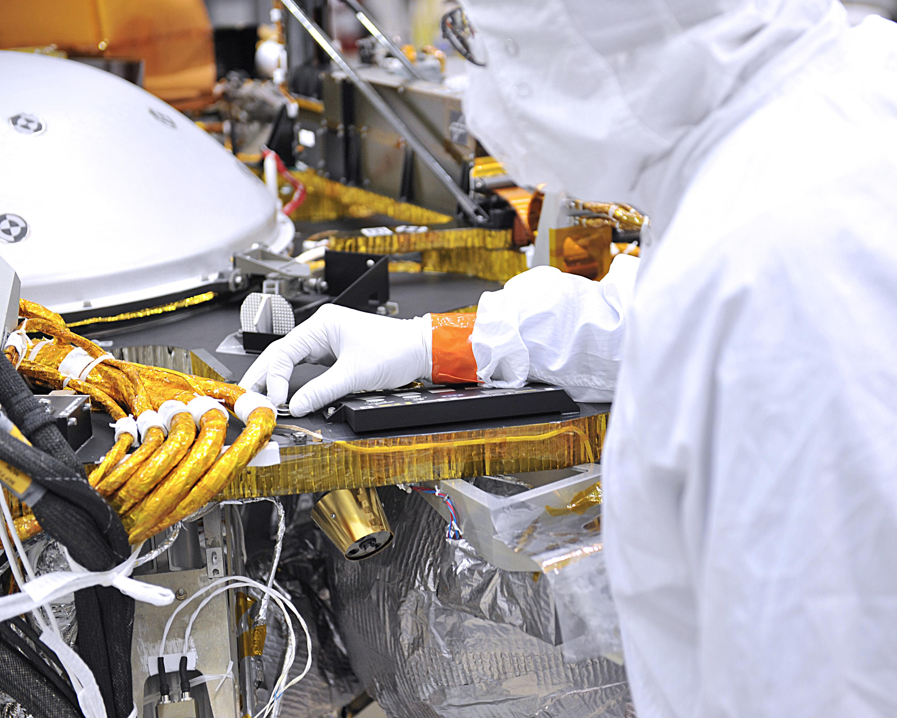 The 2nd name chip is placed on the insight mars lander